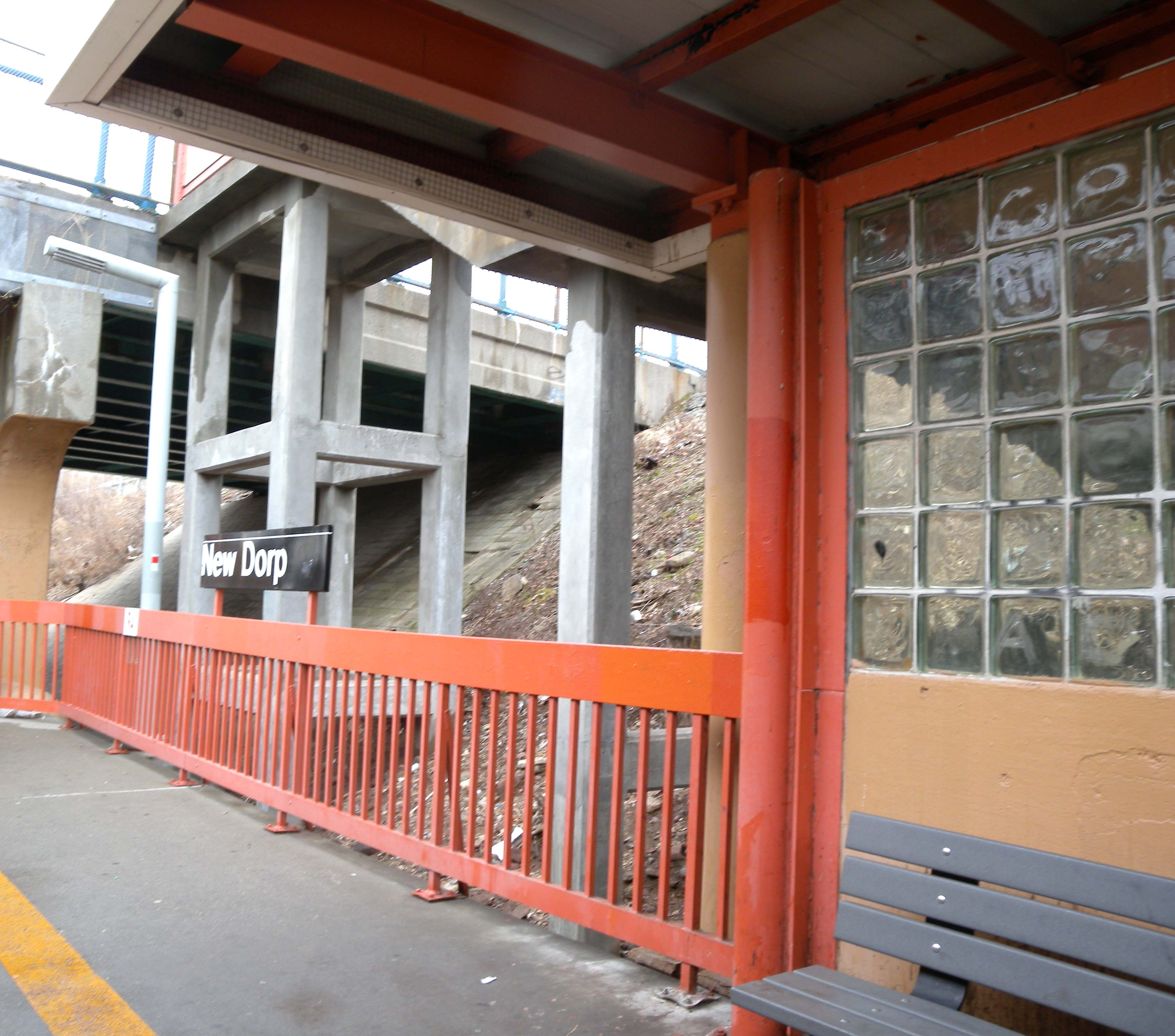 Looking west towards Rose Avenue overpass, on southbound platform of New Dorp (Staten Island Railway station) on a cloudy afternoon.